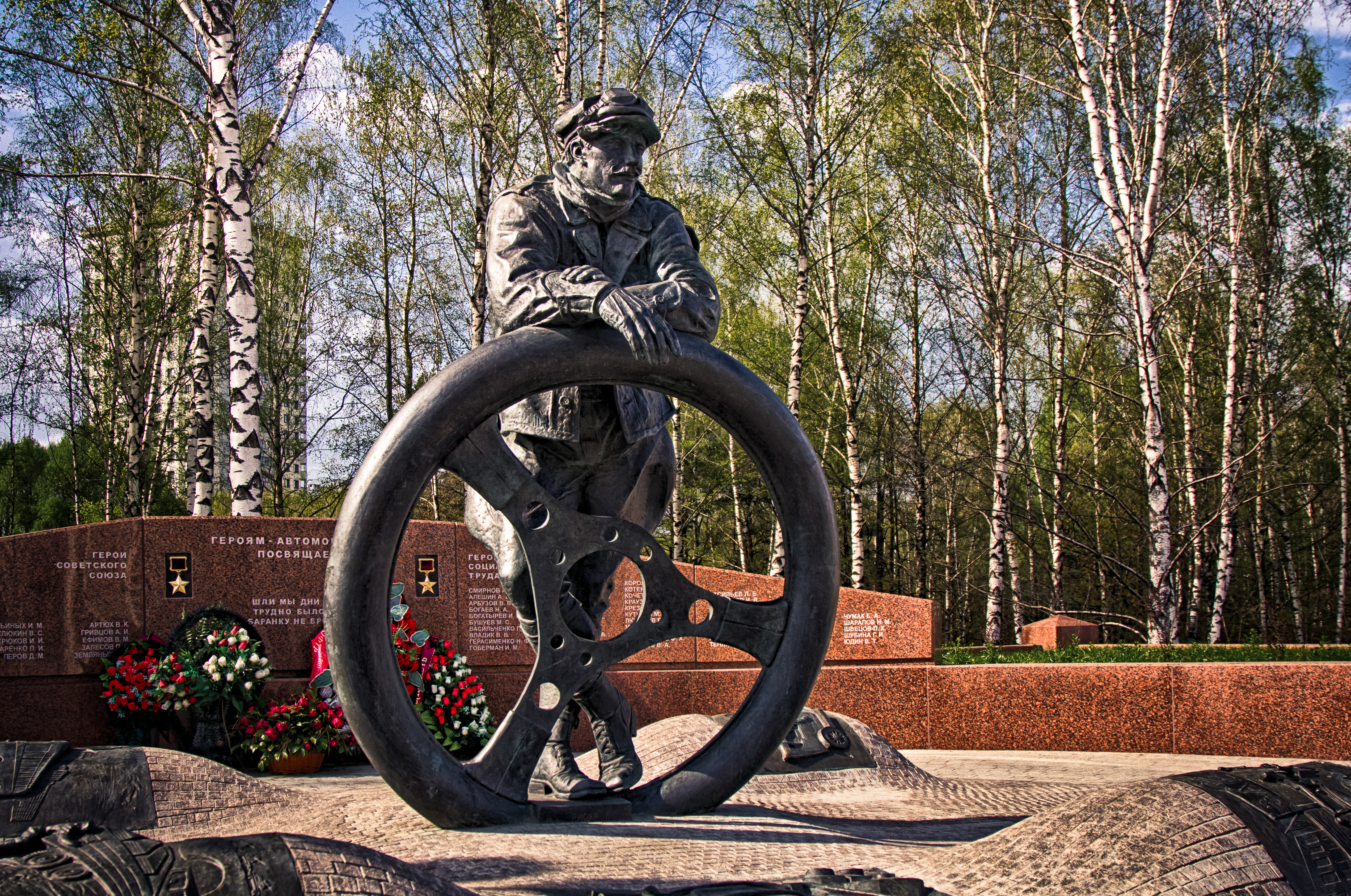 Monument to the motorists-heroes in Troparevo